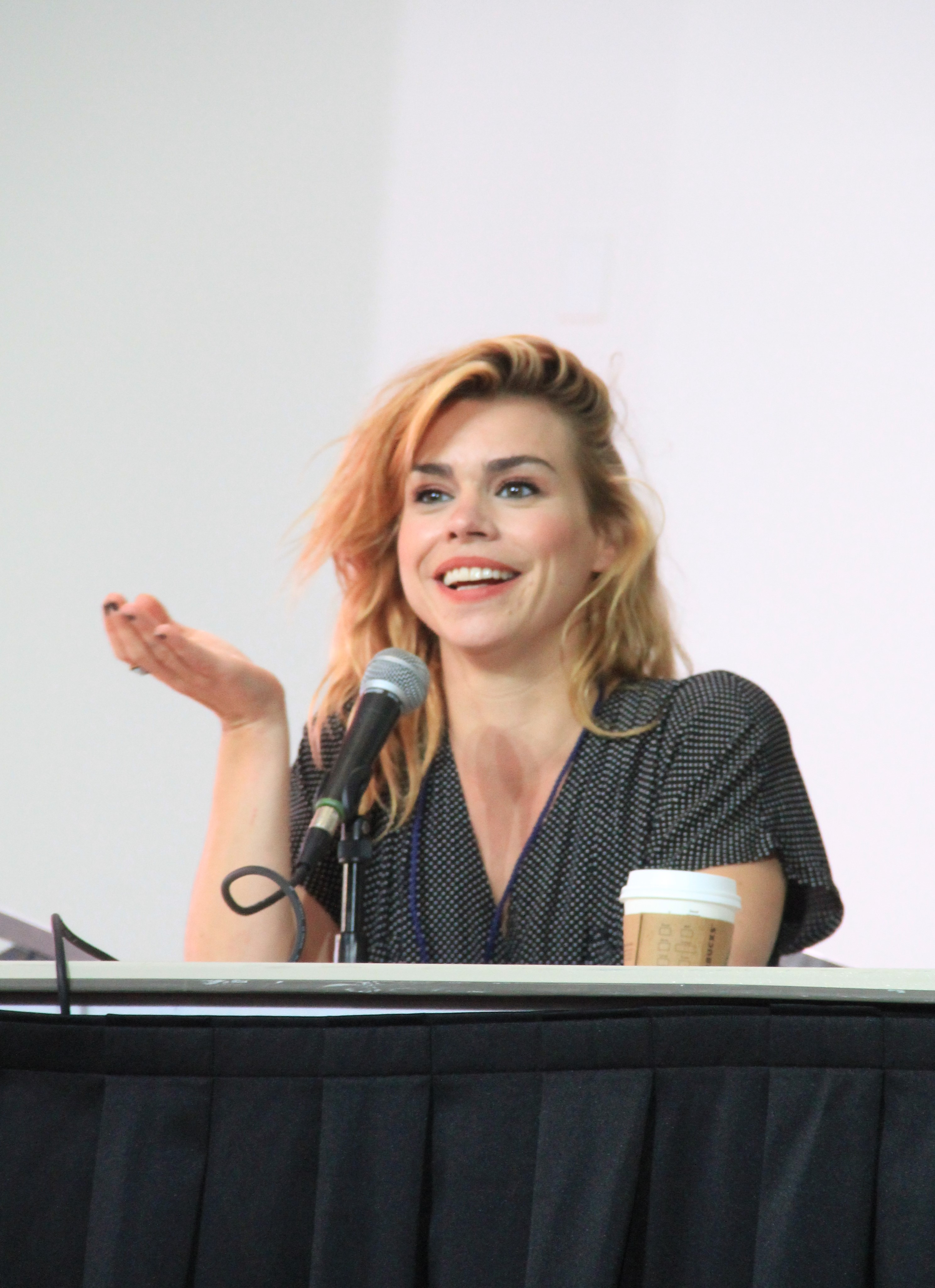 IMG_6609 Taken at Space City Comic Con 2016.